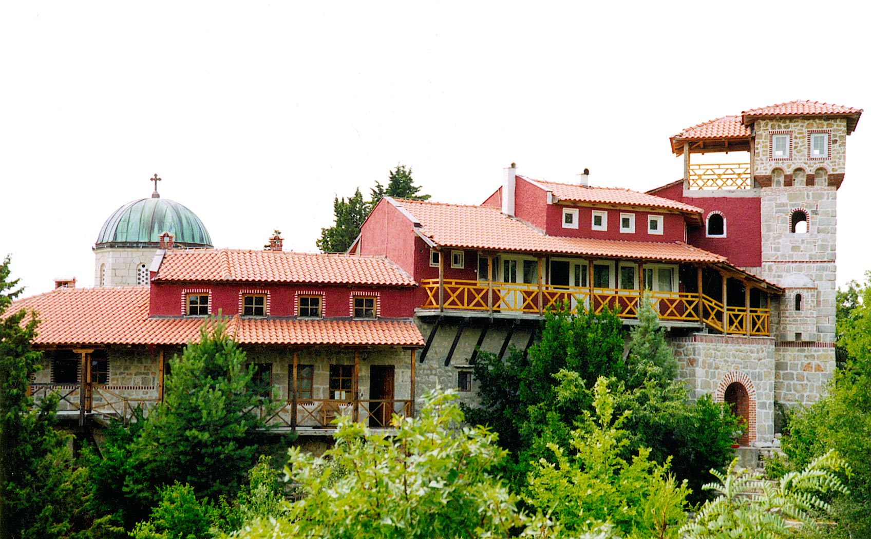 Tvrdoš monastery in Herzegovina, near Trebinje.